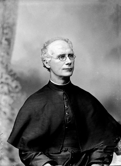 Ernst Johann Schmitz (1845-1922), German-born Portuguese naturalist, ornithologist, entomologist and Roman Catholic priest, photographed in Madeira in 1907.